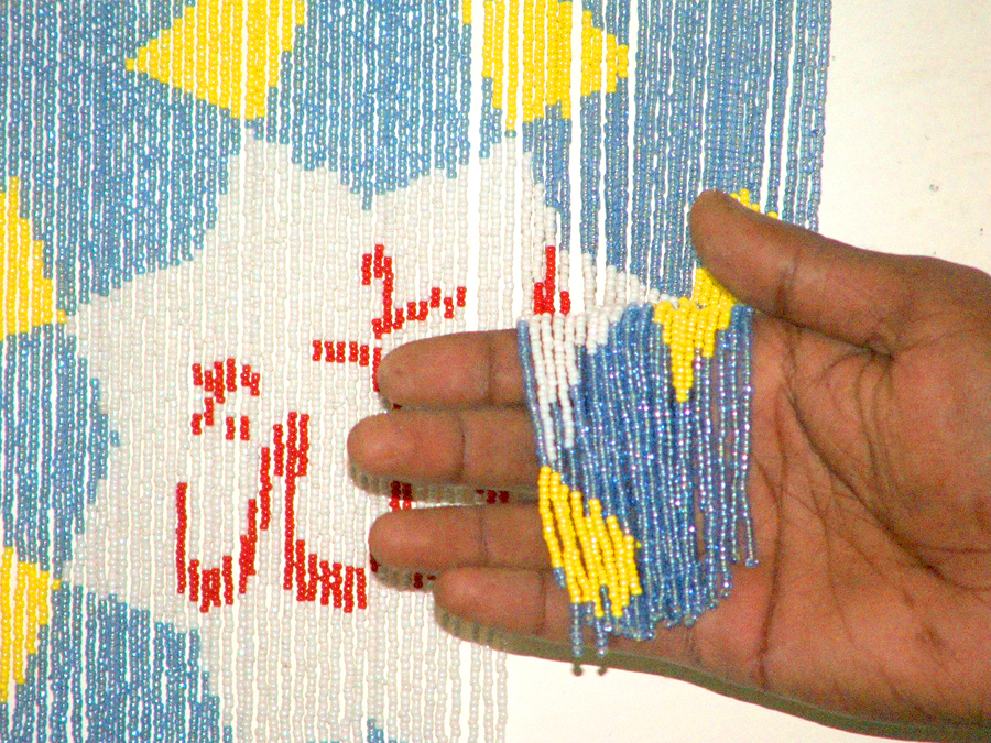 A Sample describing "Motikaari" an art + craft in Bead Stringing